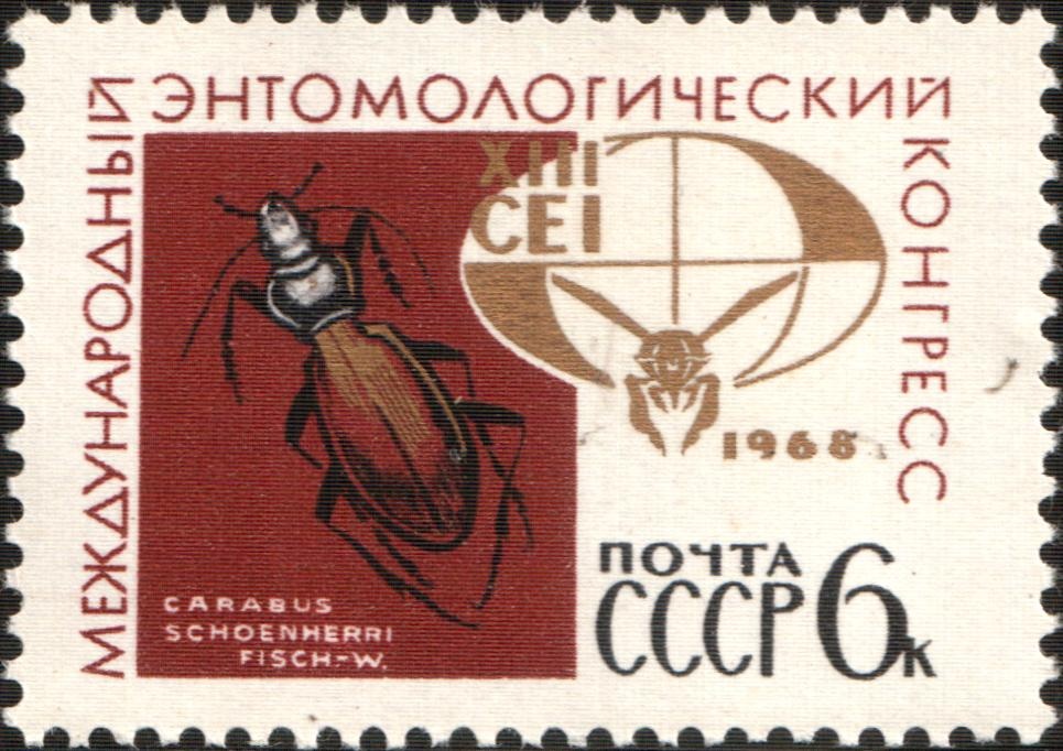 USSR stamp: 13th International Entomological Congress (1968, Moscow). Ground Beetle (Carabus schoenherri) and Emblem. Series: International Scientific Congresses to Be Held in USSR